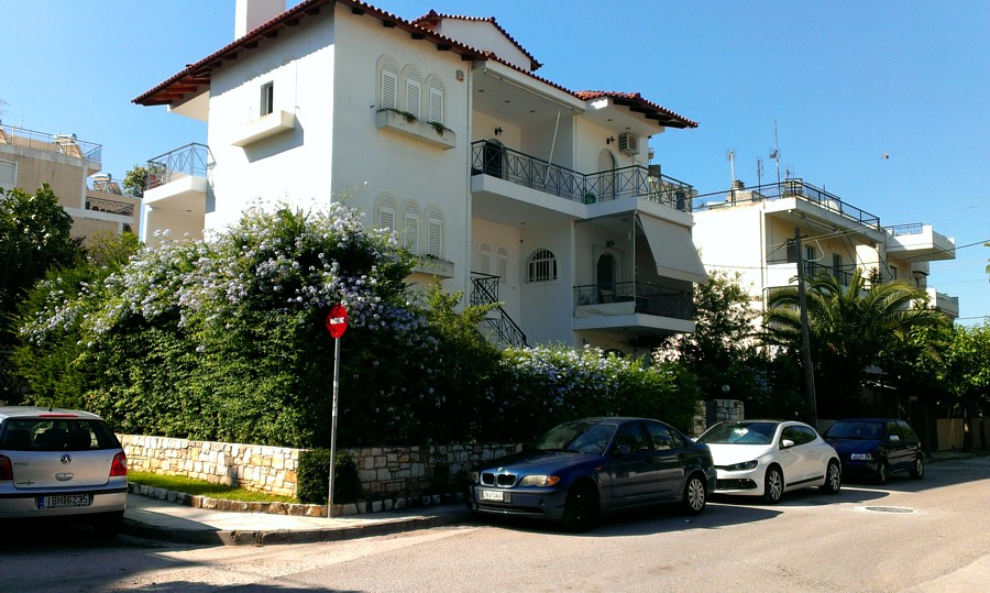 spitia